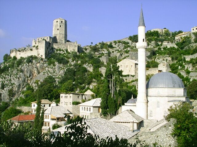 Počitelj Castle in Bosnia and Herzegovina